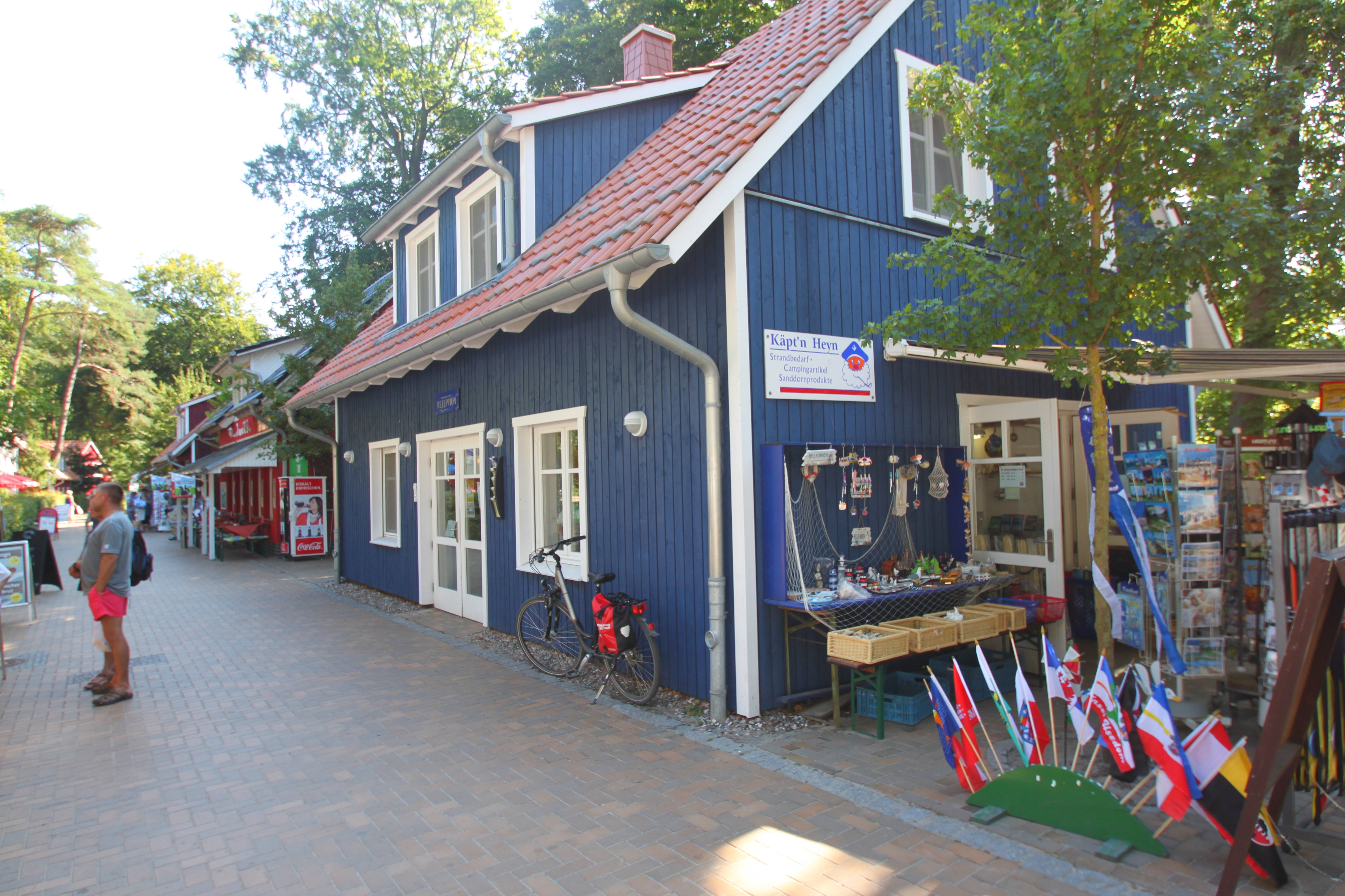 View to Uferpromenadeto of Ückeritz